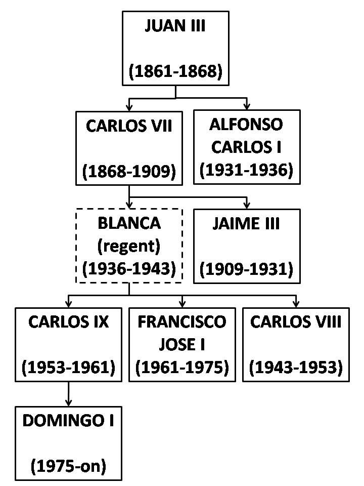 Carloctavista kings